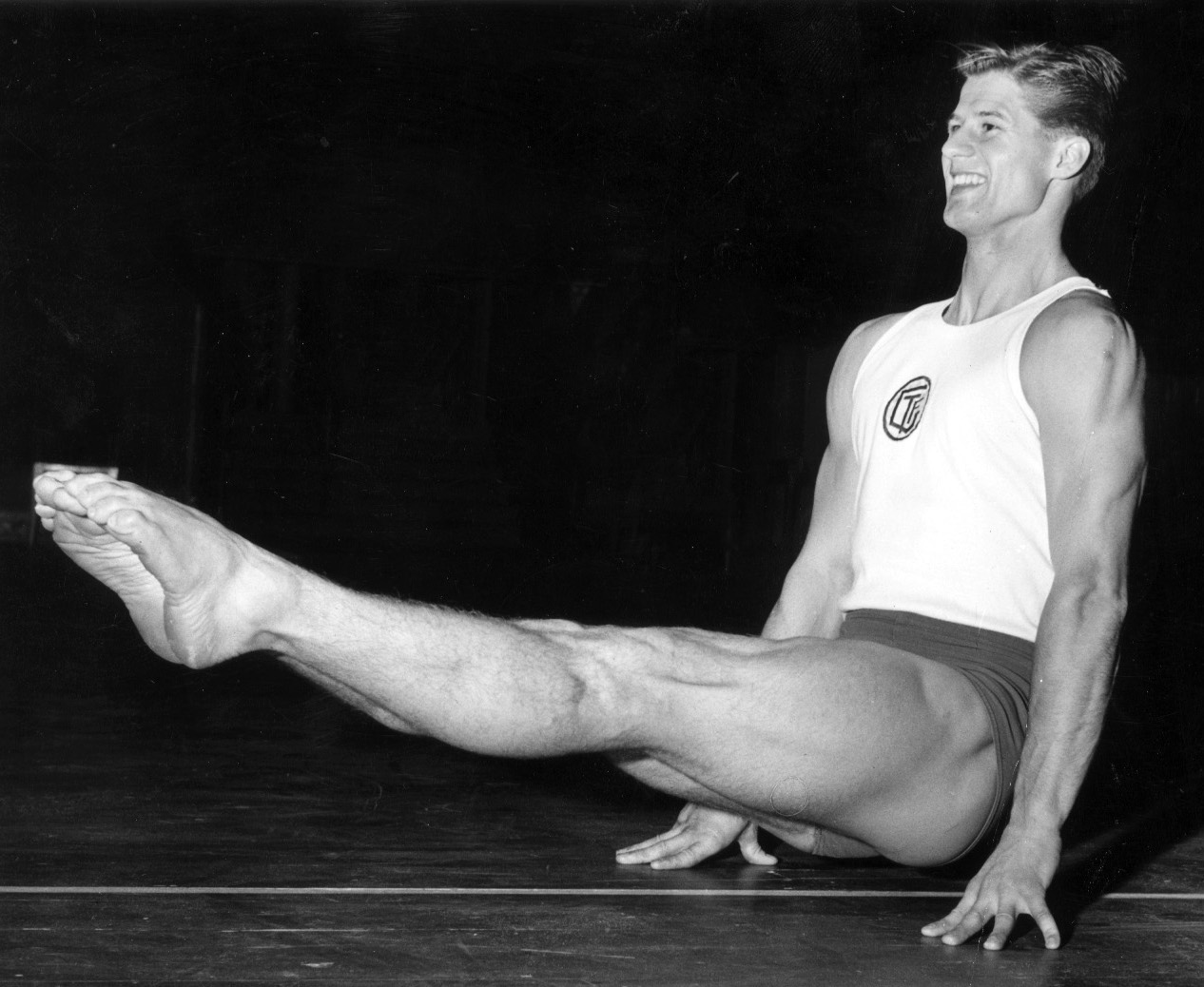 William Thoresson